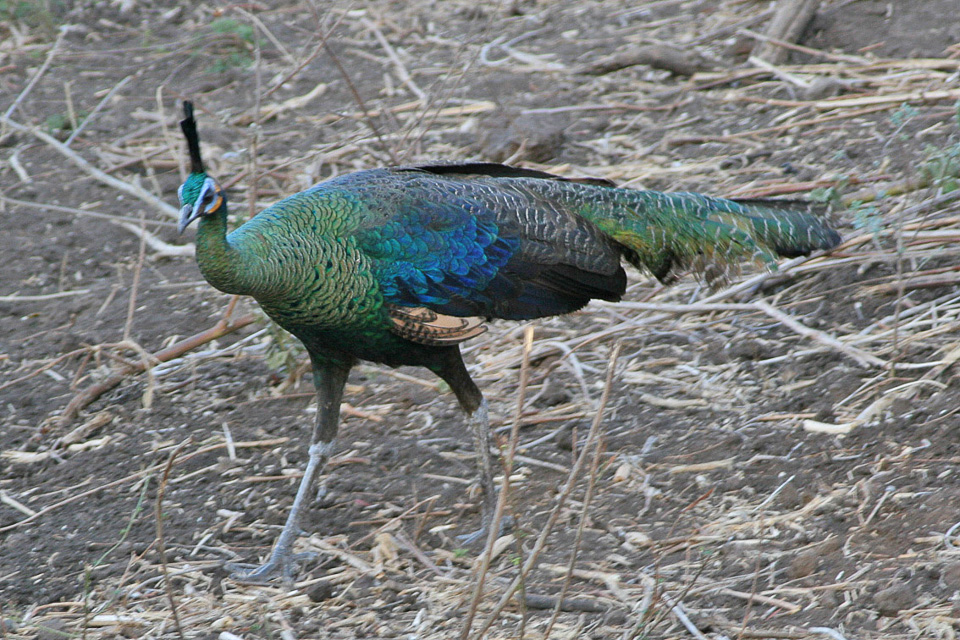 Green Peafowl (Pavo muticus) on the island of Java, Indonesia